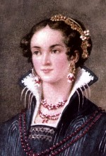 Portrait of Laura Martinozzi, wife of Alfonso IV, Duke of Modena and Reggio. She was Duchess and Regent of Modena from 1658 to 1674. This portrait was done from an original oil painting which belonged to the Salesian Sisters of Modena.